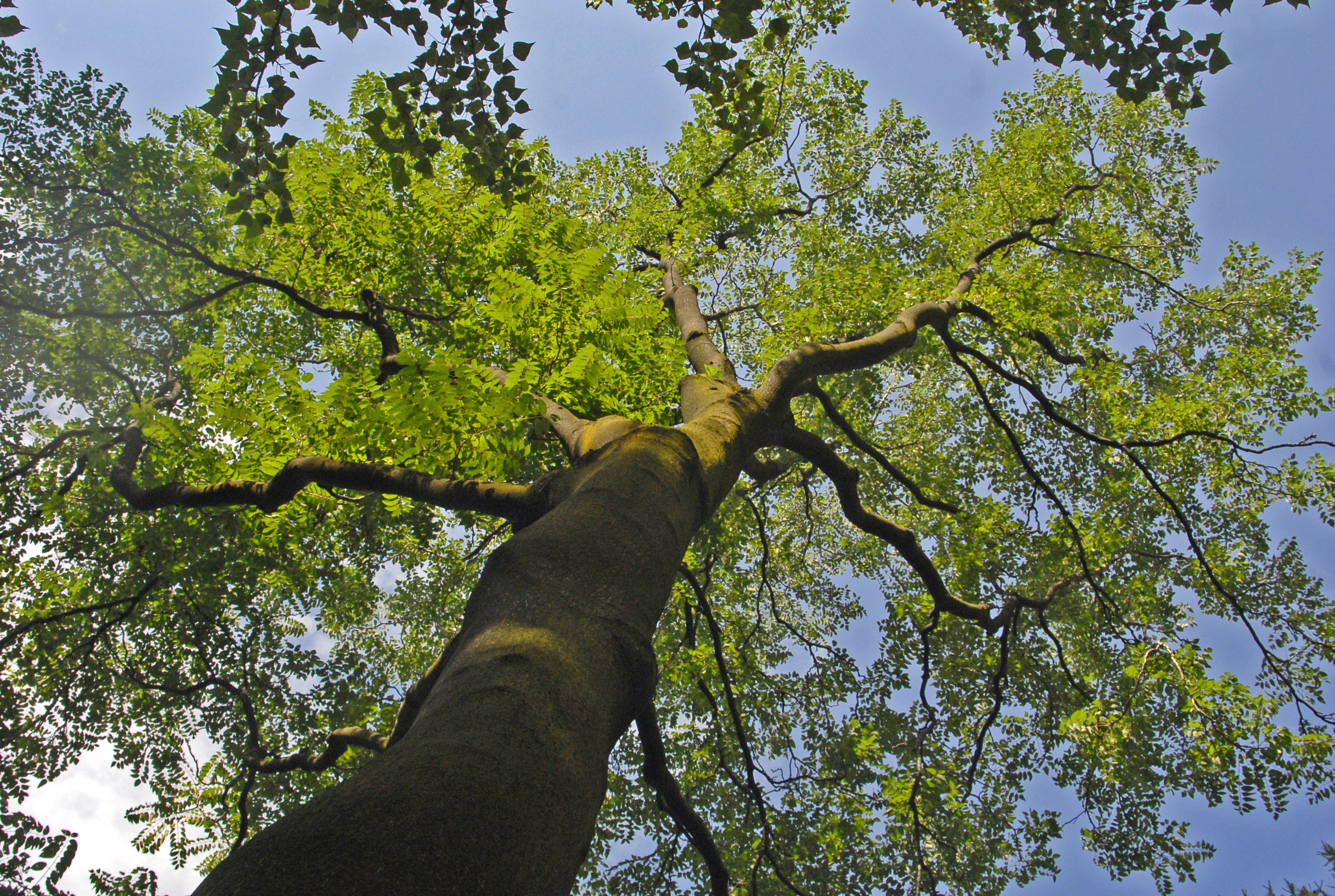 Ailanthus vilmoriniana at the Orto Botanico di Brera (Milan, Italy).